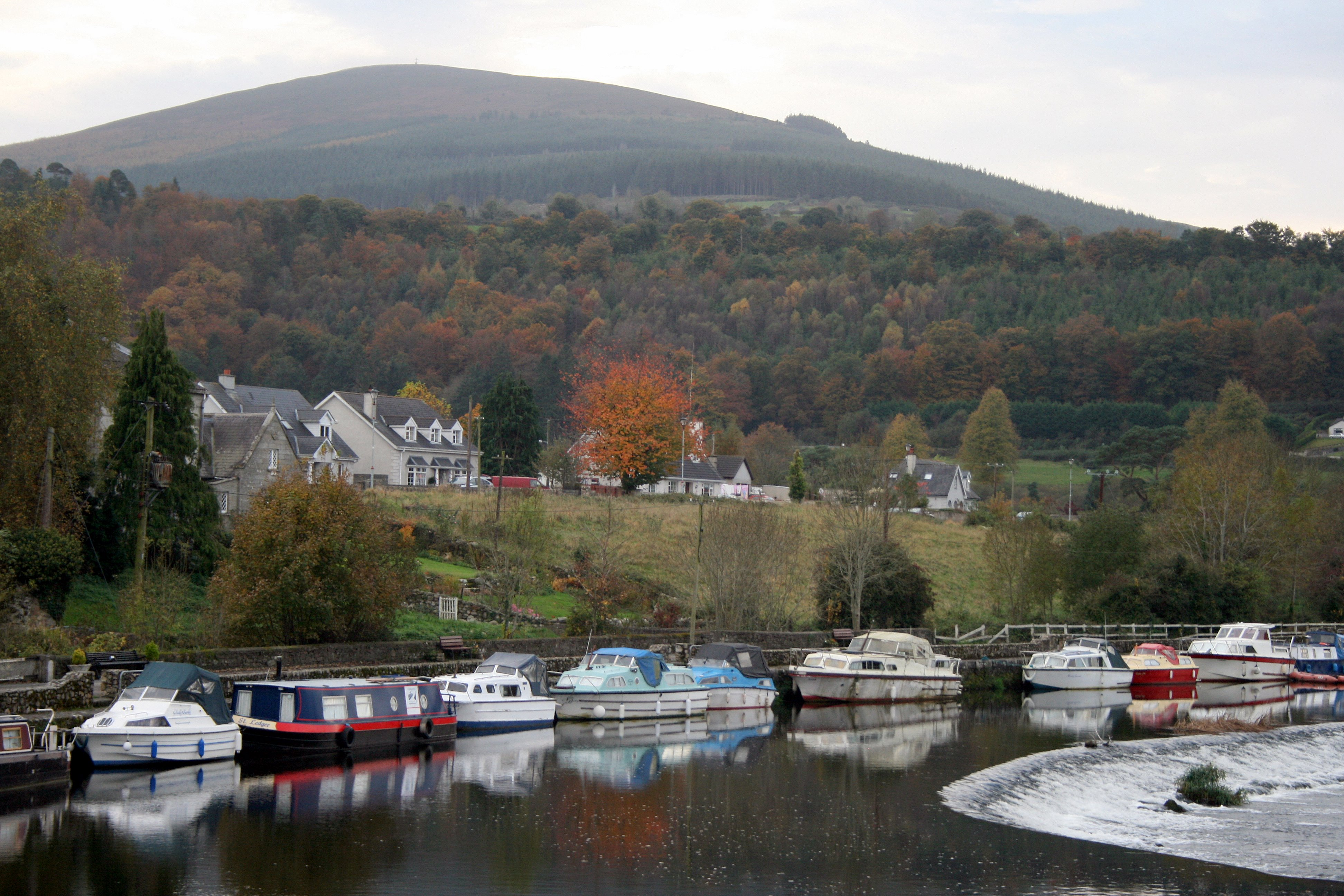 Brandon Hill above Graiguenamagh, County Kilkenny, Ireland